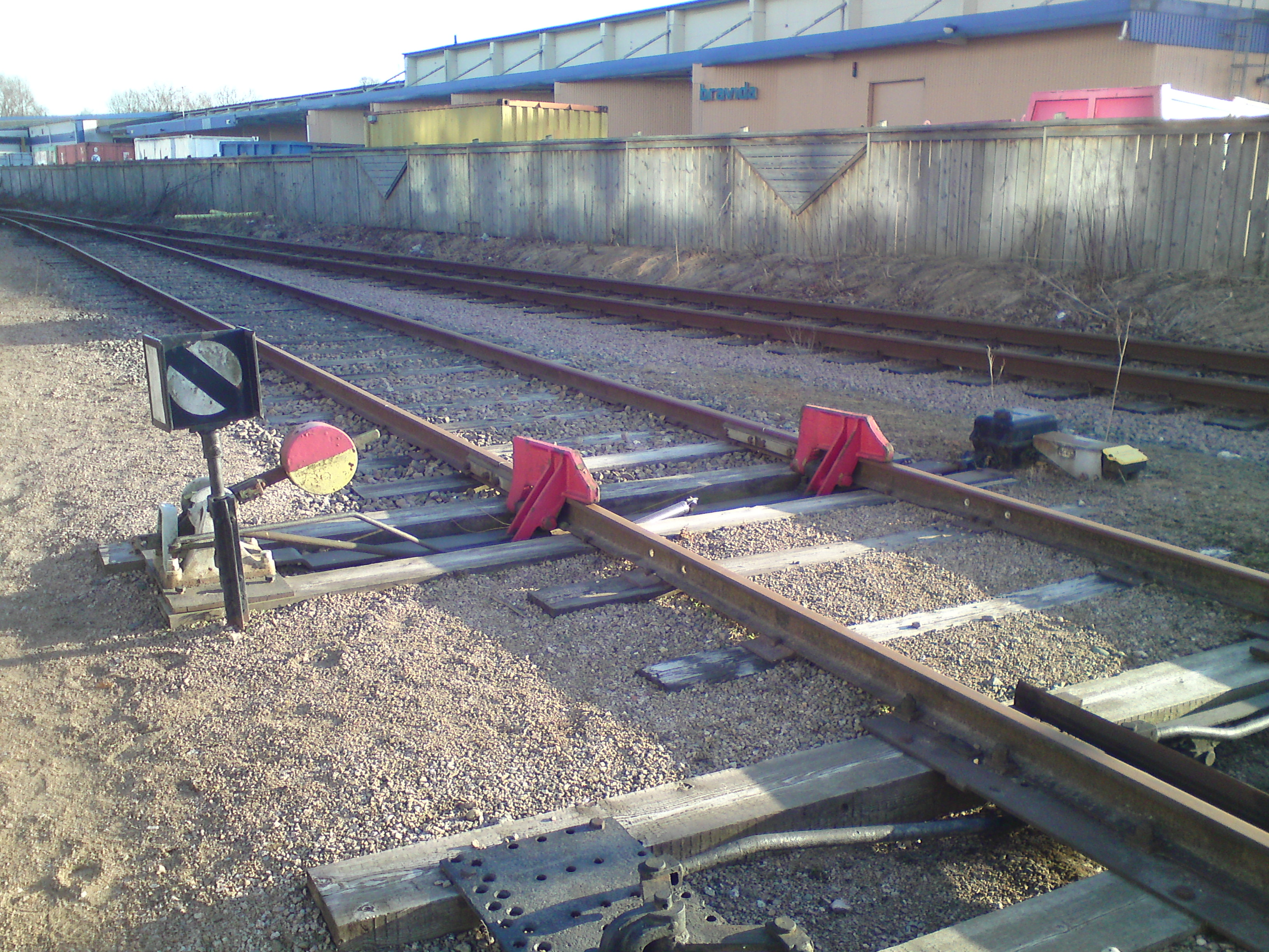 Railway protection system